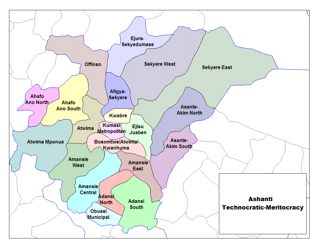 Ashanti districts